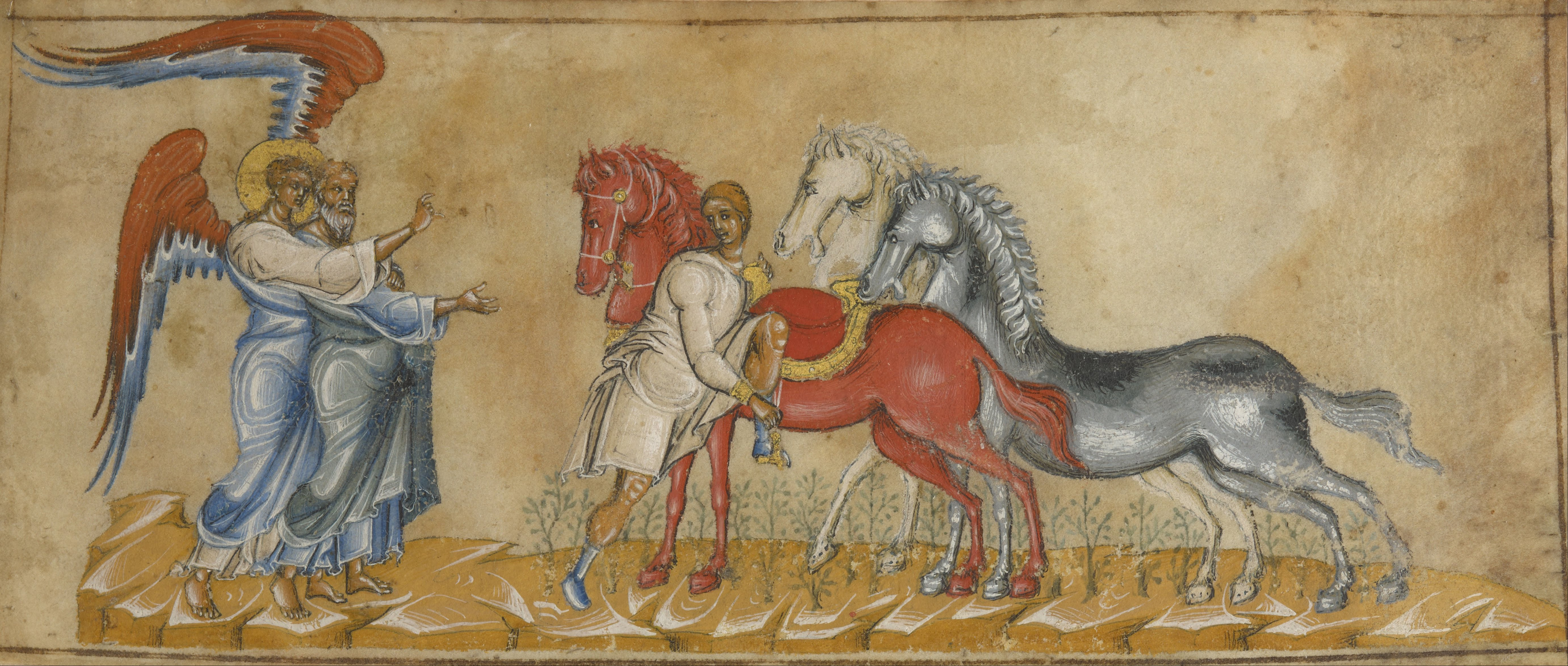 Unknown Italian, Sicily, about 1300 Tempera colors and gold on parchment 2 7/8 x 6 7/8 in. MS. 35, LEAF 2 This miniature, cut from a book of Old Testament prophets made in Sicily, presents the first of the prophet Zechariah's eight visions, a subject rarely depicted in art. Zechariah stands on the left, next to an angel who points to a man mounting a red horse. The angel explains to Zechariah that the man and the three horses are a sign of those "whom the Lord has sent to walk through the earth." The swirling loops of folds in the figures' clothing, the white highlights used to model the forms, and the sketchy, delicate lines of the horses' manes all betray the artist's contemporary Byzantine roots. The figures' diminutive heads, hands, and feet, features characteristic of late Byzantine art, emphasize their generously draped bulkiness.